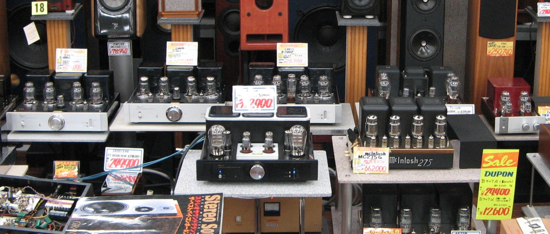 Tube amplifiers on sale in Japan.